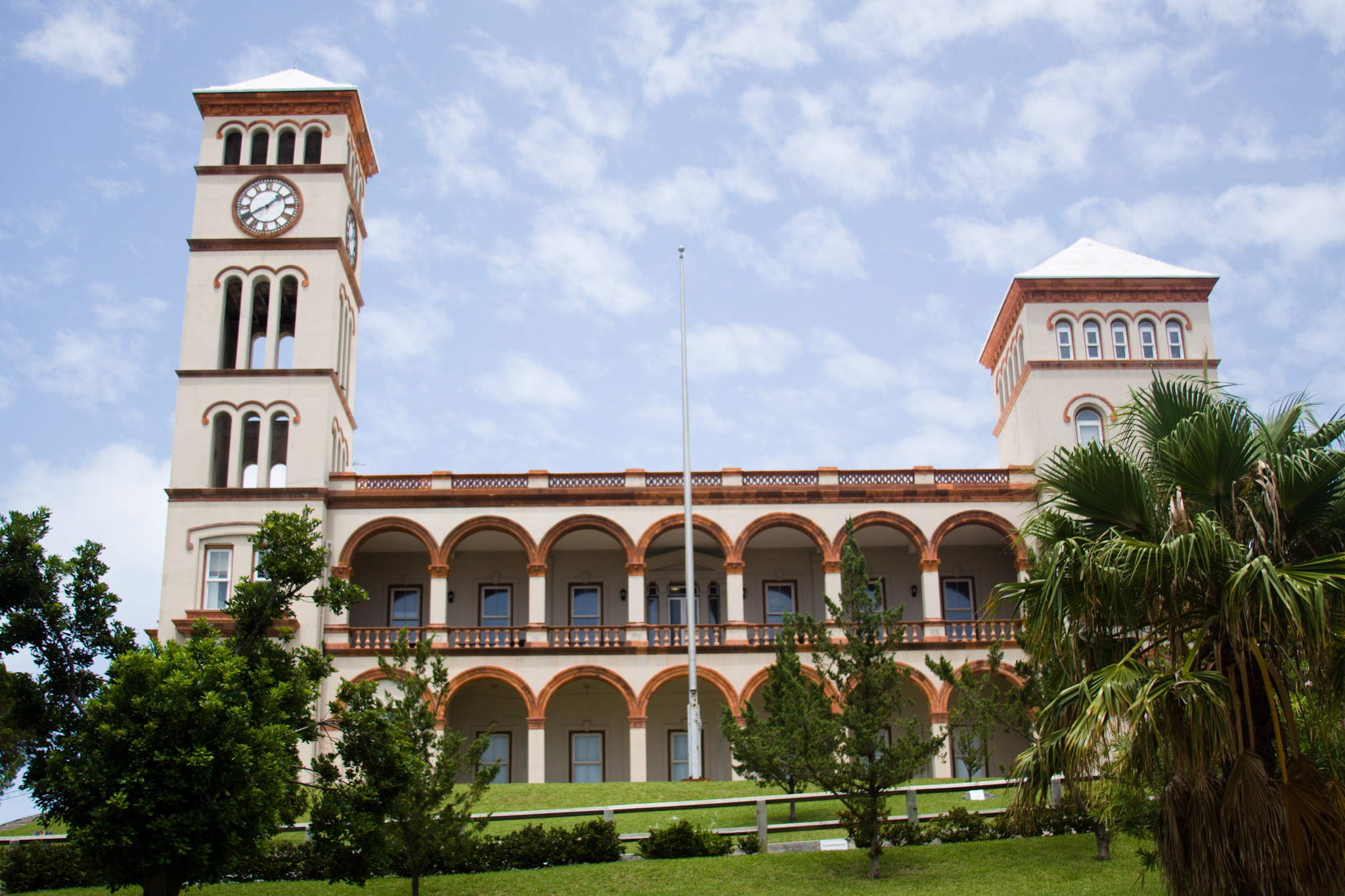 View of front of Sessions House, Hamilton, Bermuda as viewed from Reid Street.